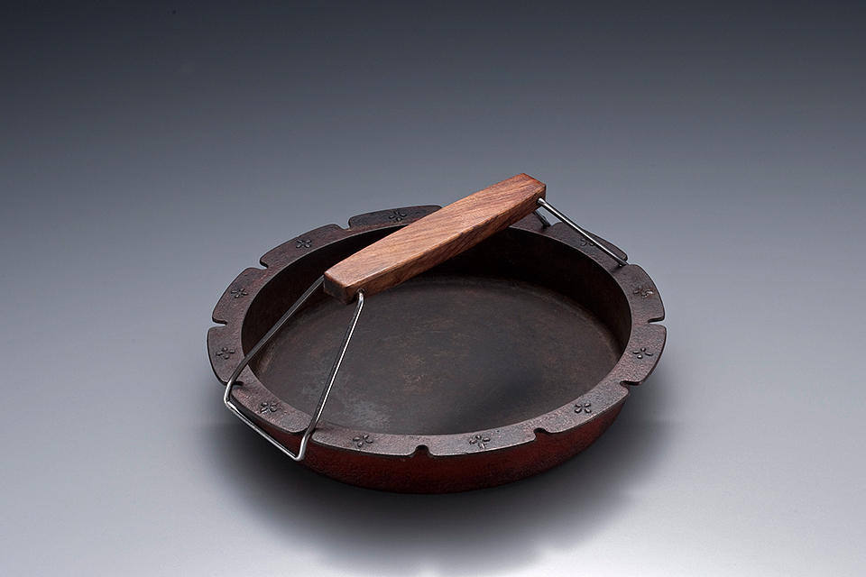 Sukiyaki Pan [iron] (1984), Masahiro Mori (ceramic designer) designed